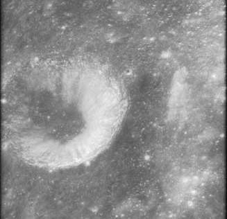 Oblique view of Al-Khwarizmi M crater, south of Al-Khwarizmi, on the moon, with north at top.